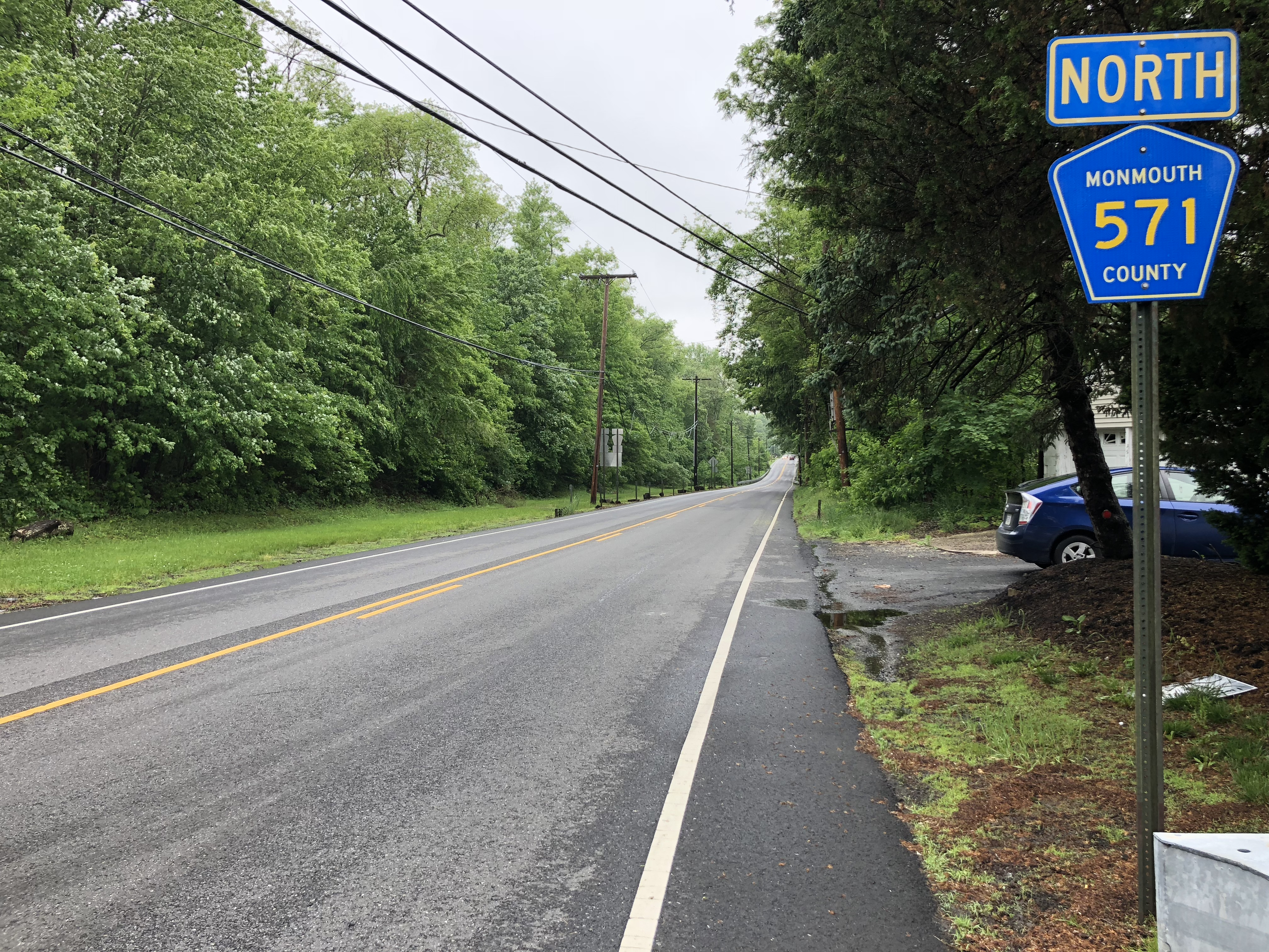 View north along Monmouth County Route 571 (Etra-Perrineville Road) at Monmouth County Route 1 (Perrineville Road) and Windsor Road in Millstone Township, Monmouth County, New Jersey